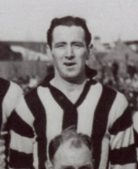 Photo of Pat Dalton in 1944